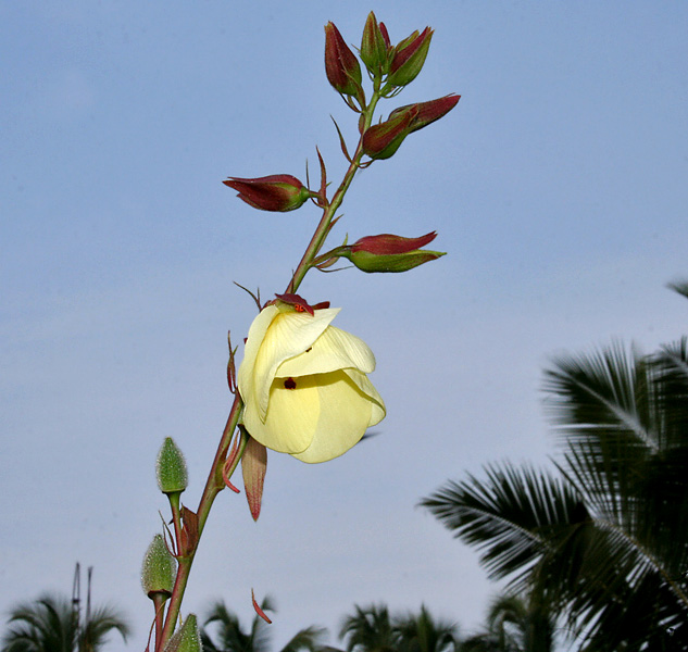 Abelmoschus manihot subspecies tetraphyllus- Sweet Hibiscus, Edible Hibiscus, Manihot-mallow, Sunset Hibiscus, Yellow Hibiscus • Hindi: जंगली भिंडी jungli bhindi • Marathi: रान भेंडी raan bhendi • Assamese: Usipak • Gujarati: કાંટાલૉ ભેંડે kantalo bhende- in Goa, India.